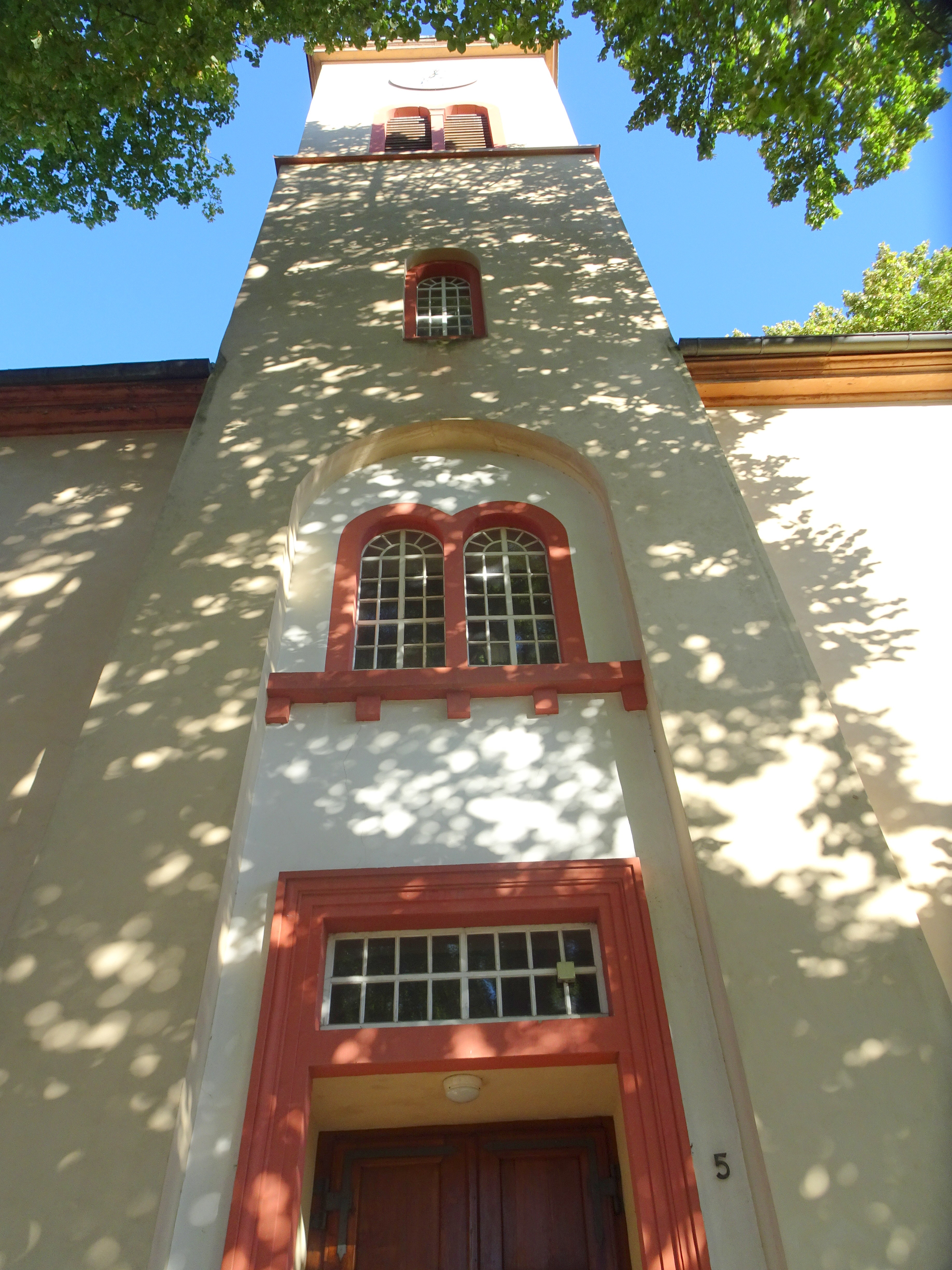 Wieża i wejście do kościoła św. Hilarego.